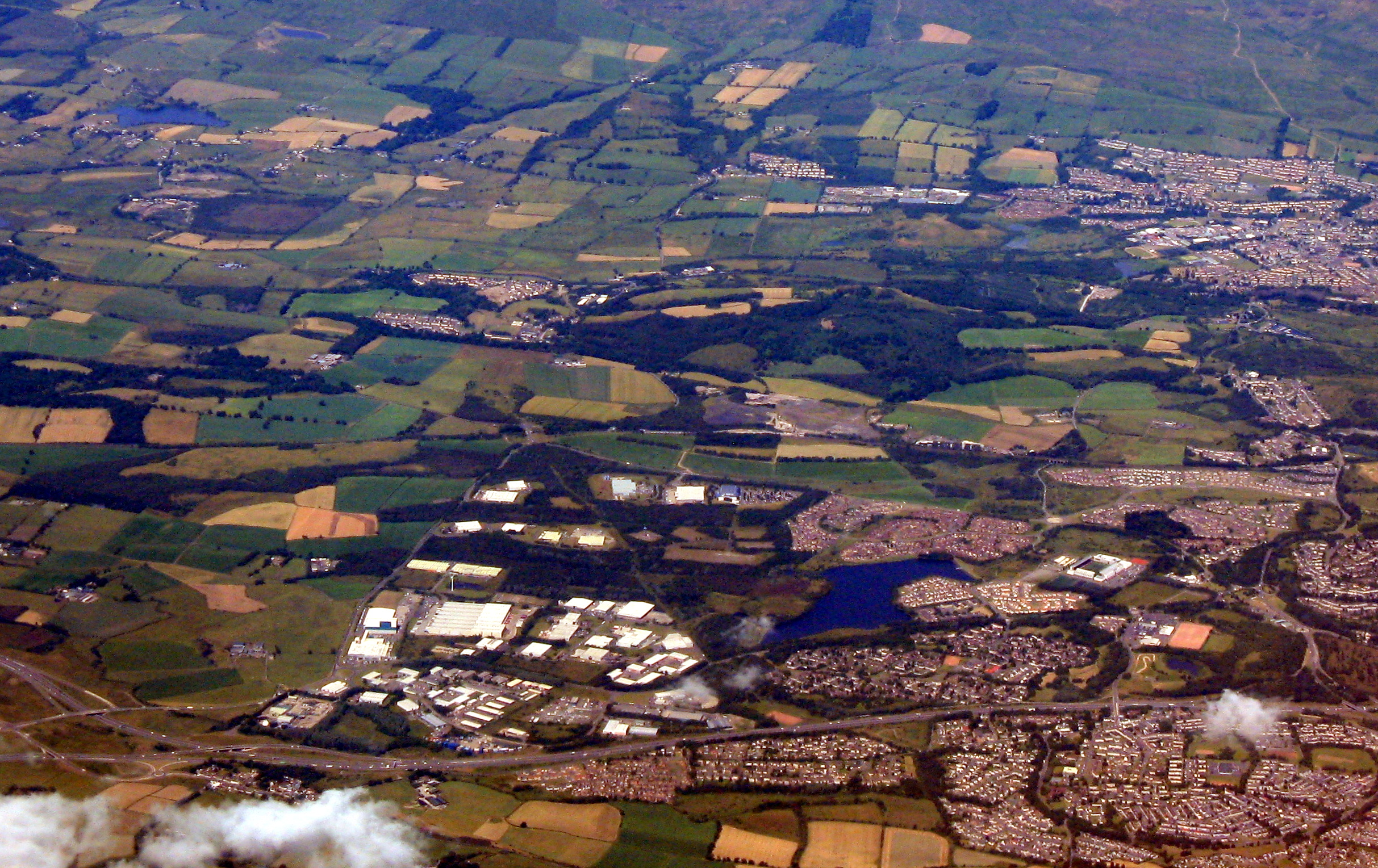 North Lanarkshire and the Kilsyth Hills